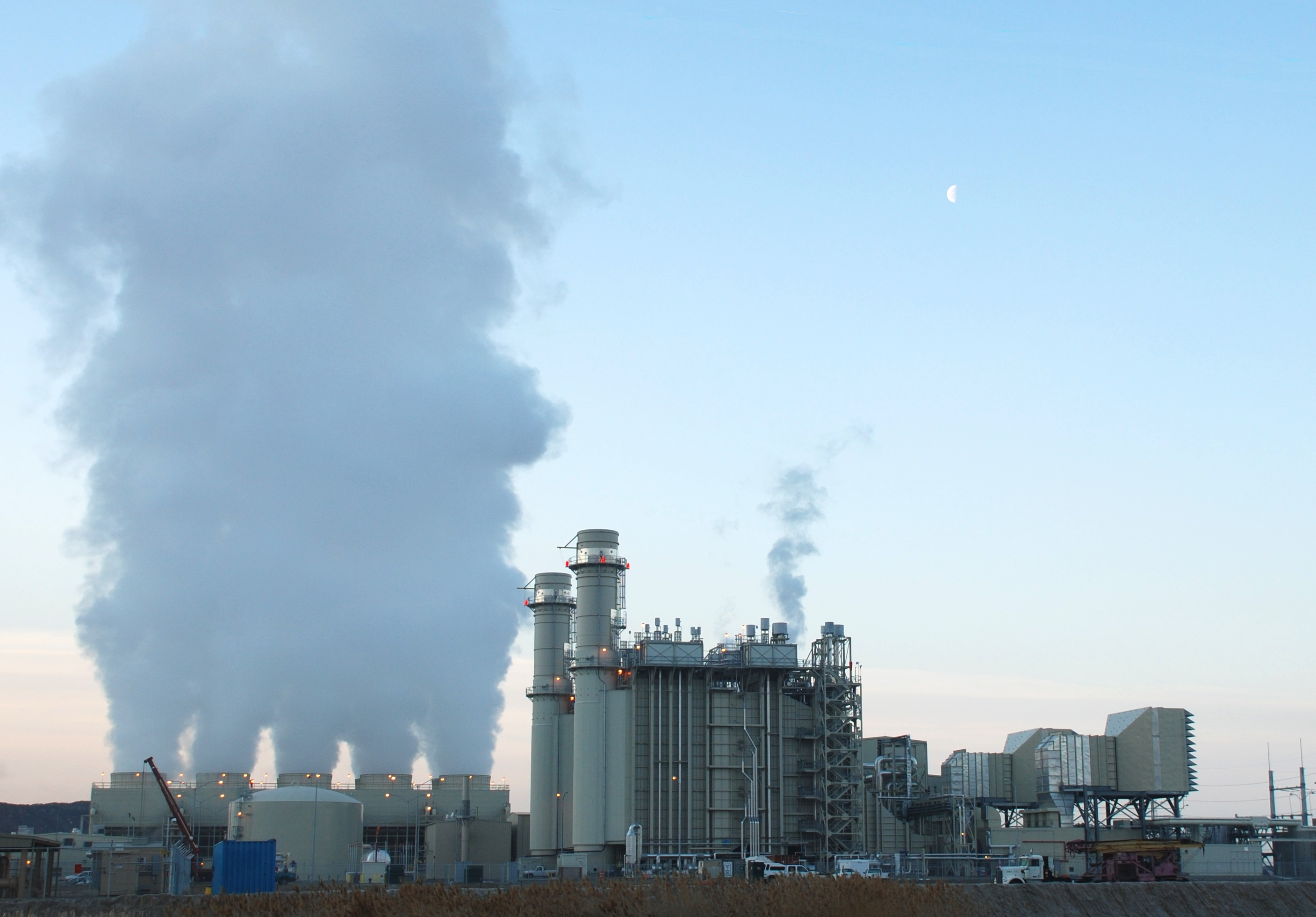 Lake Side Power Plant in the early morning